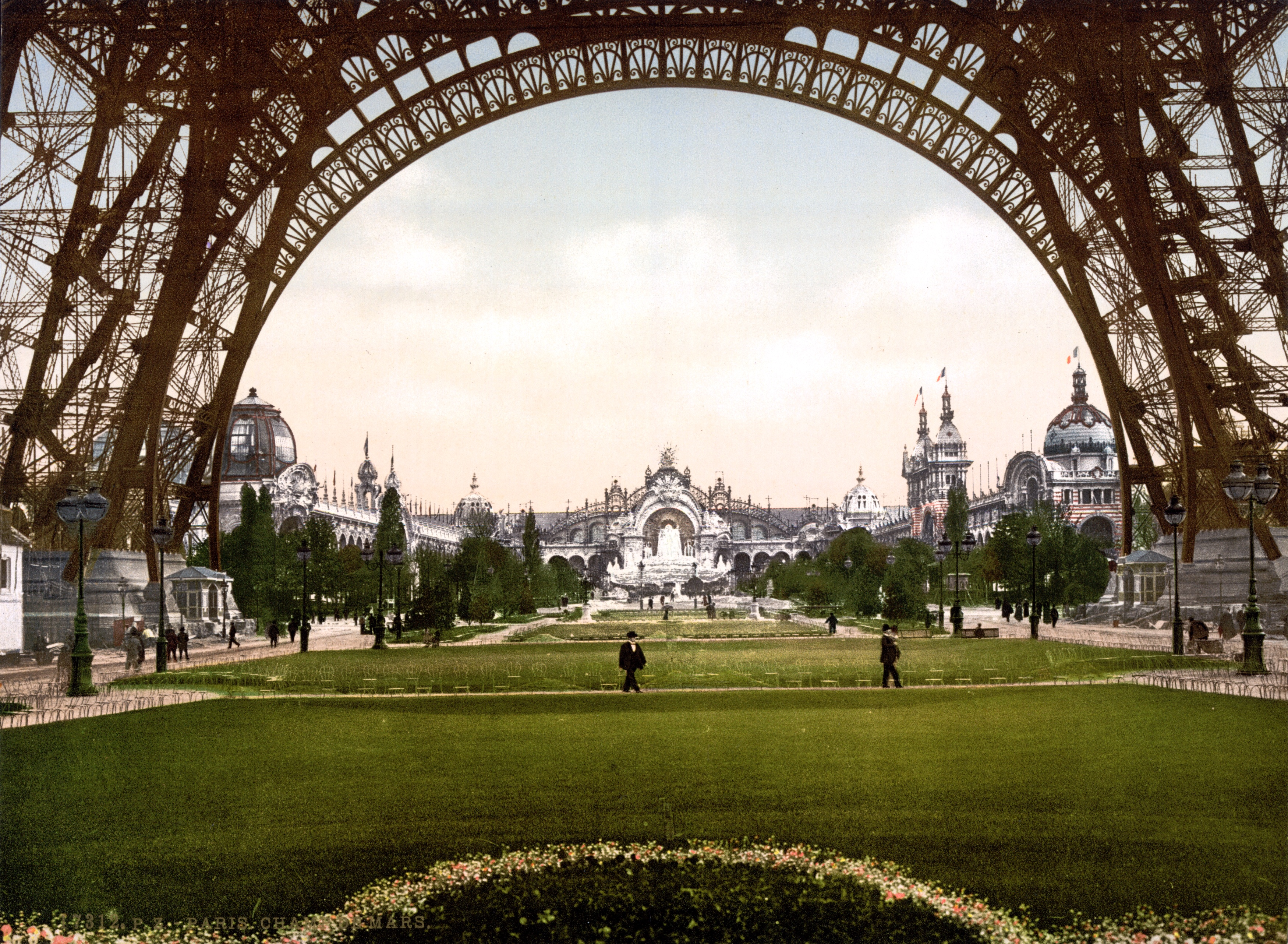 Exposition Universal, 1900, Paris, France